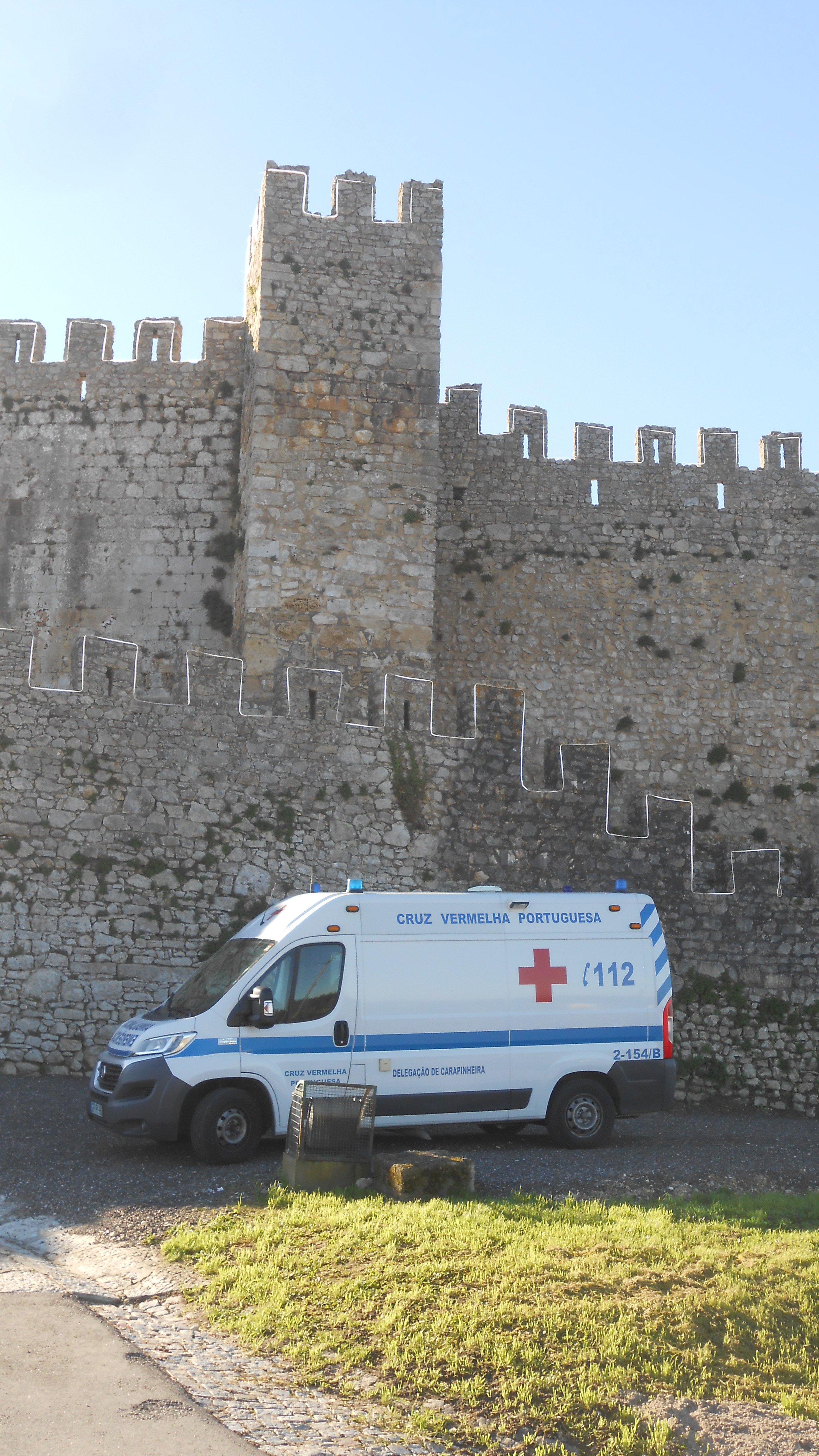 Ambulance of the Portuguese Red Cross at an entrance to the Castle of Montemor-o-Velho on the ocasion of the christmas village Castelo Mágico, december 2019.